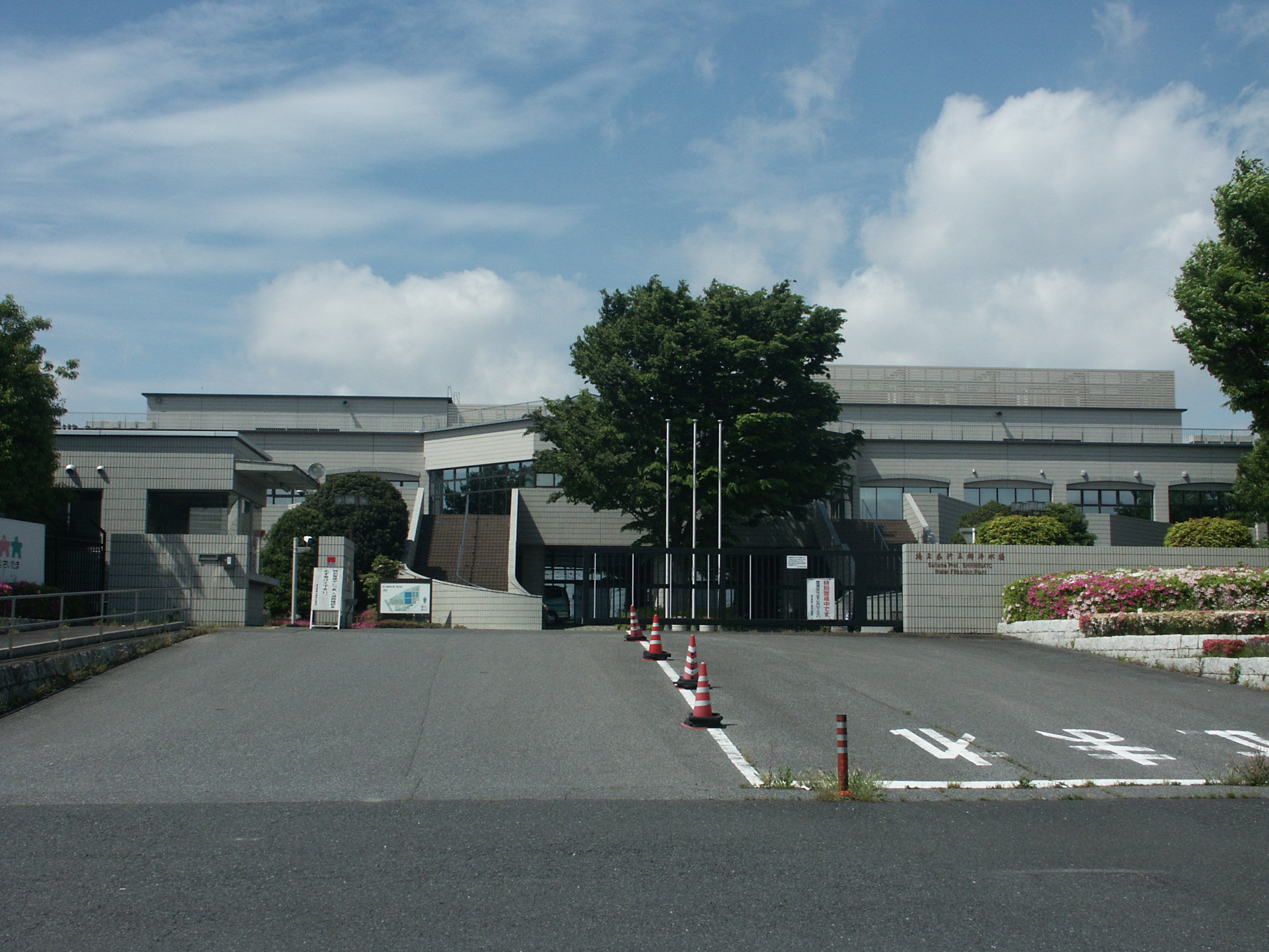 Shin-Misato Water Filtration Plant in Misato City, Saitama Prefecture, Japan